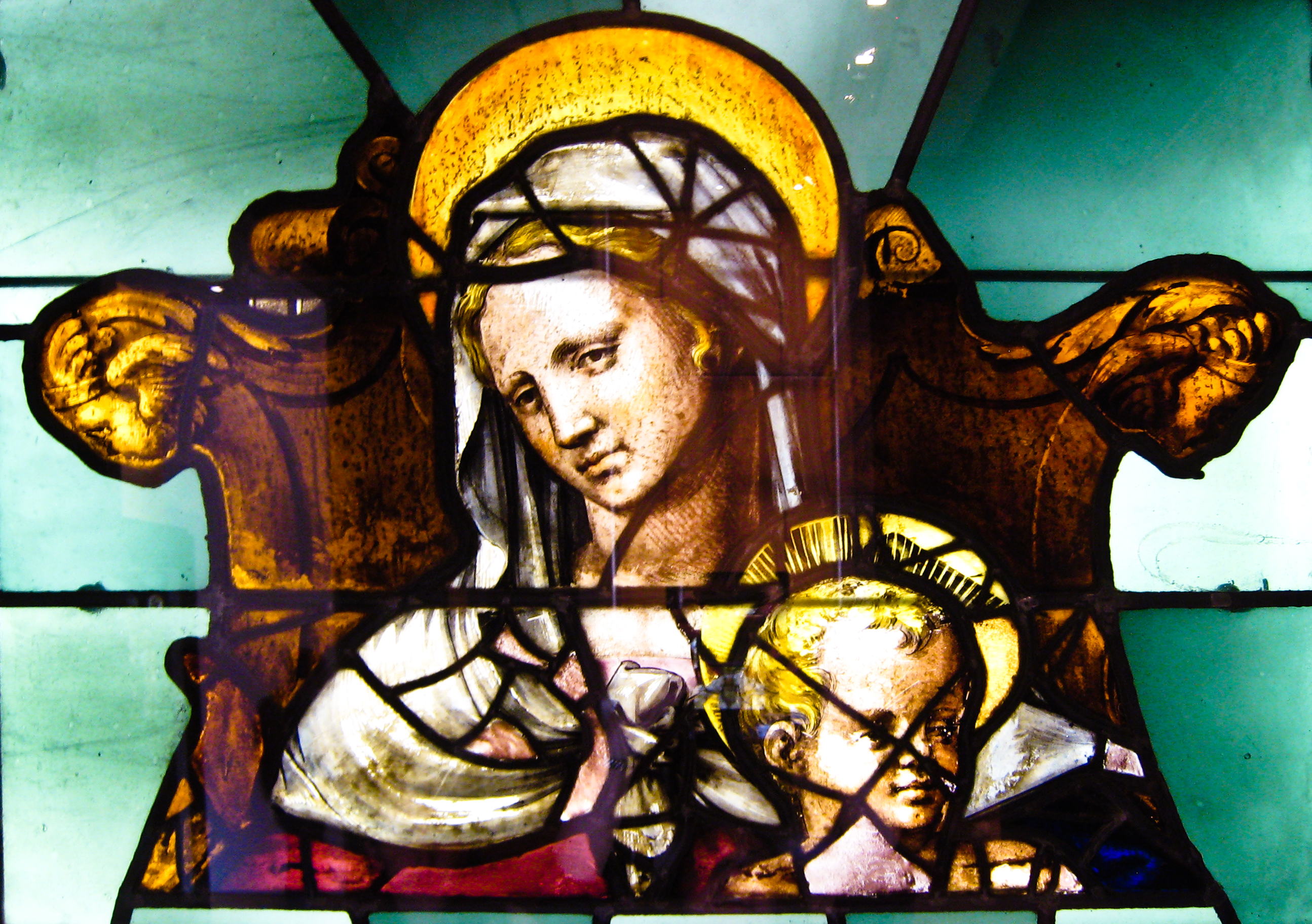 Virgin and Child, Stained Glass Fragment, Beaurain, 1556